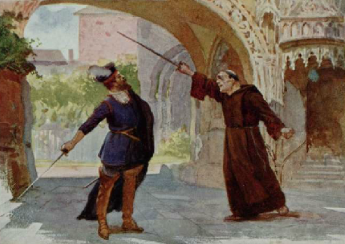 Forza del Destino